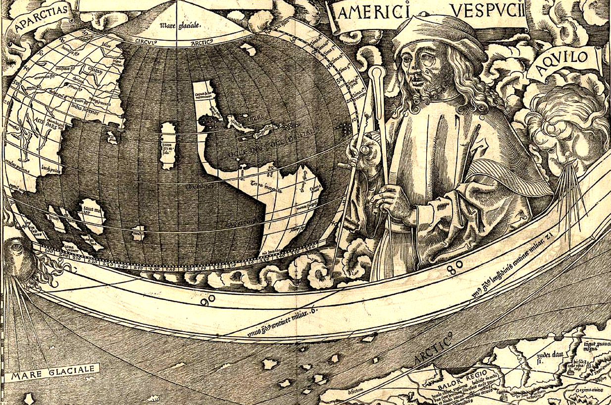 Americi Vespucii CROPPED Waldseemüller map from 1507 is the first map to include the name "America" and the first to depict the Americas as separate from Asia. There is only one surviving copy of the map, which was purchased by the Library of Congress